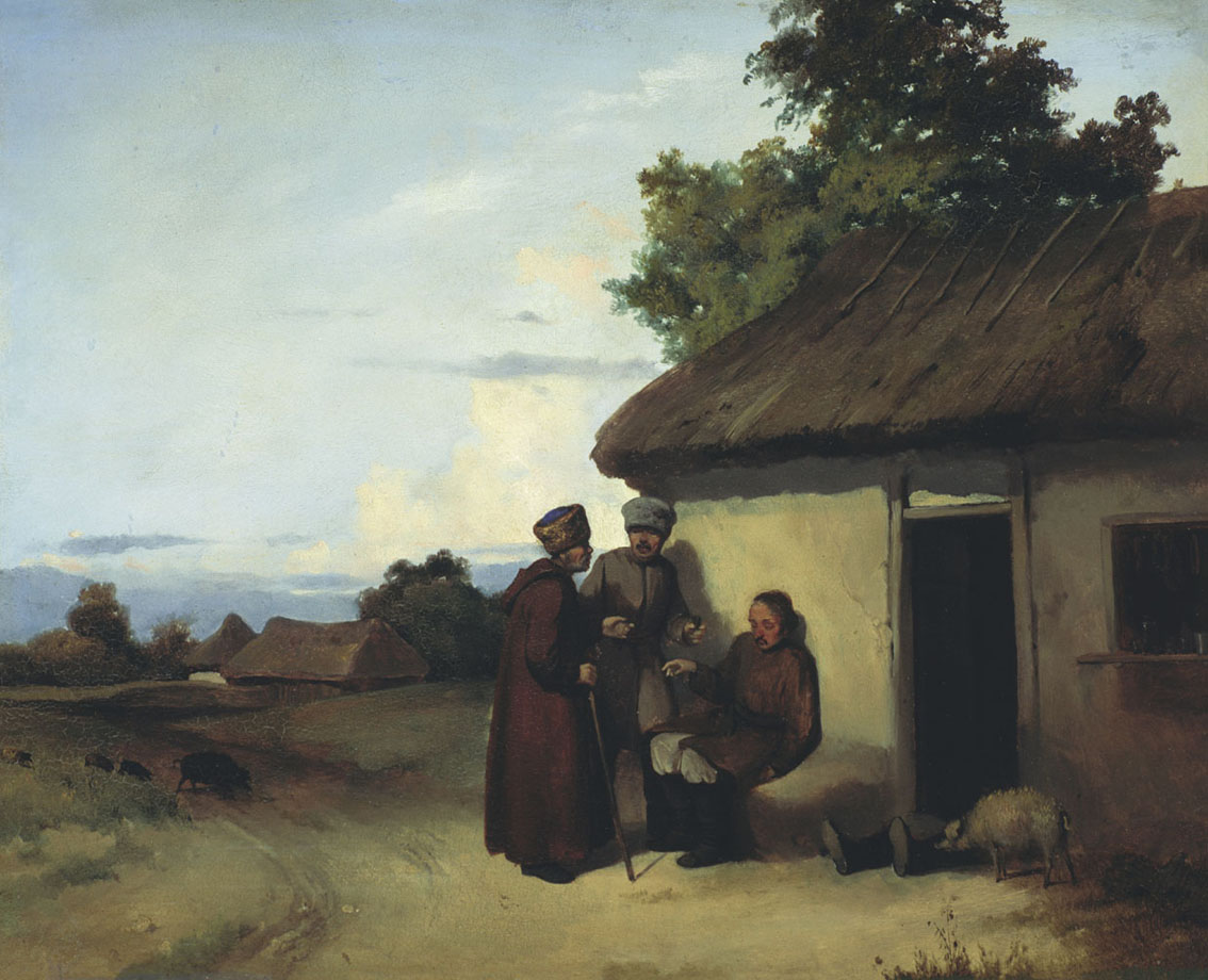 "A pub in Little Russia", painting by Vasily Sternberg